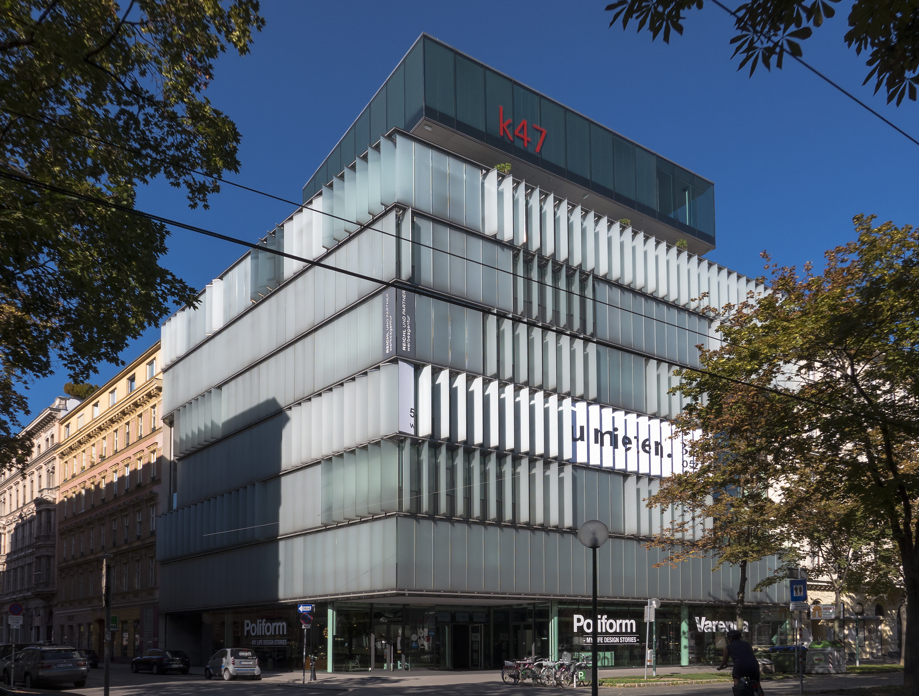 Office building k47 in Vienna 1, Franz-Josefs-Kai 47